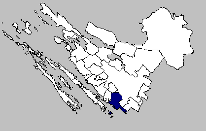 Self-made map of the Pakoštane municipality within the Zadar County.